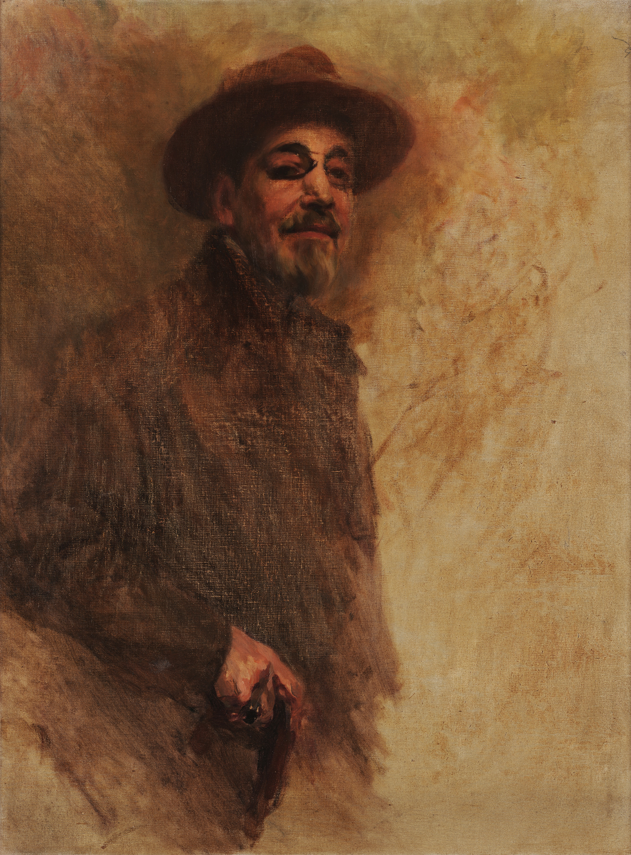 The unfinished self-portrait